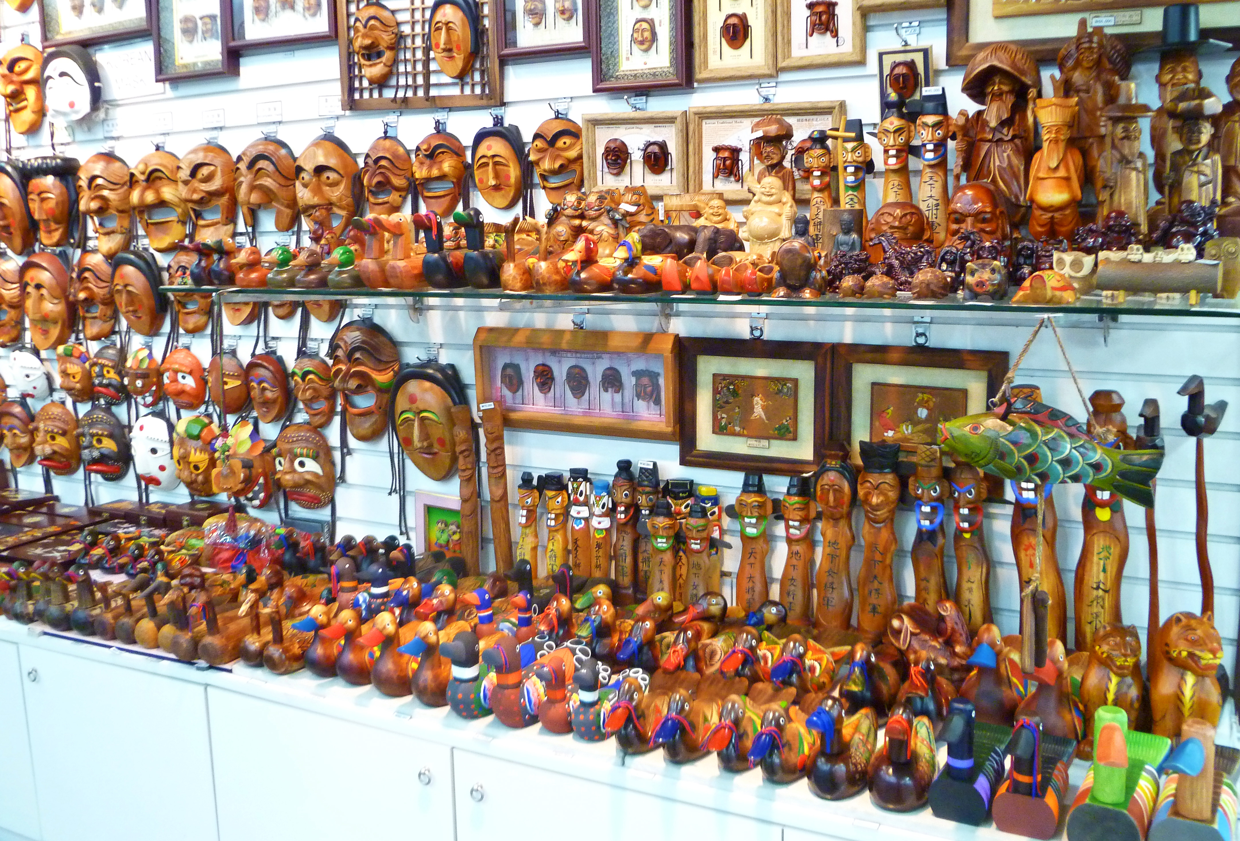 Wedding ducks at a souvenir store in Insawon, Seoul, South Korea